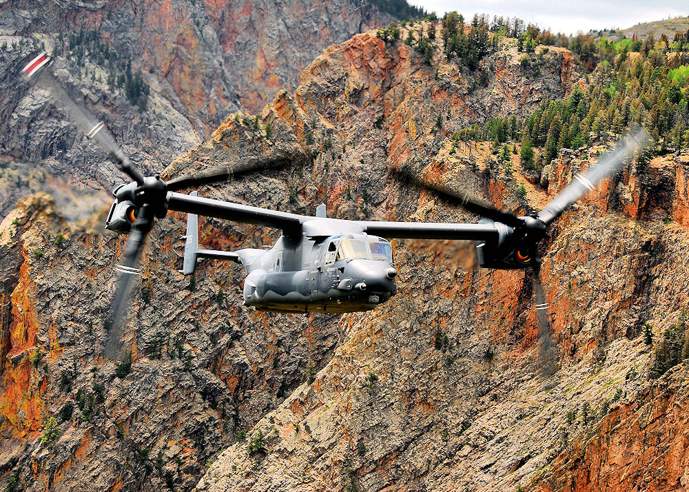 New Mexico: A crew from KOB-TV, Albuquerque, N.M., news takes a ride on a CV-22 Osprey Aug. 7 and finds themselves in the midst of aerial scenery that is breathtaking, as is the angle of flight through part of the ride. The CV-22 is assigned to the 58th Special Operations Wing, 71st Special Operations Squadron, here. U.S. Air Force photo by Staff Sgt. Markus Maier